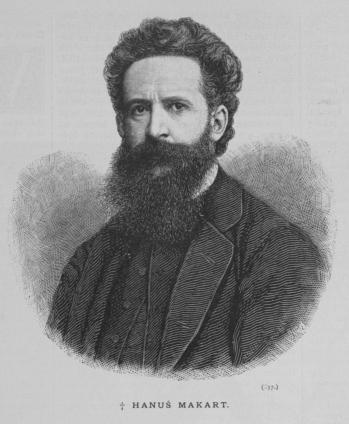 Portrait of Hans Makart (1840 - 1884), Austrian painter and designer